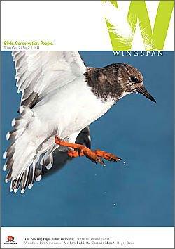 The cover of the June 2011 edition of Wingspan magazine, the distributed to members of Birds Australia.